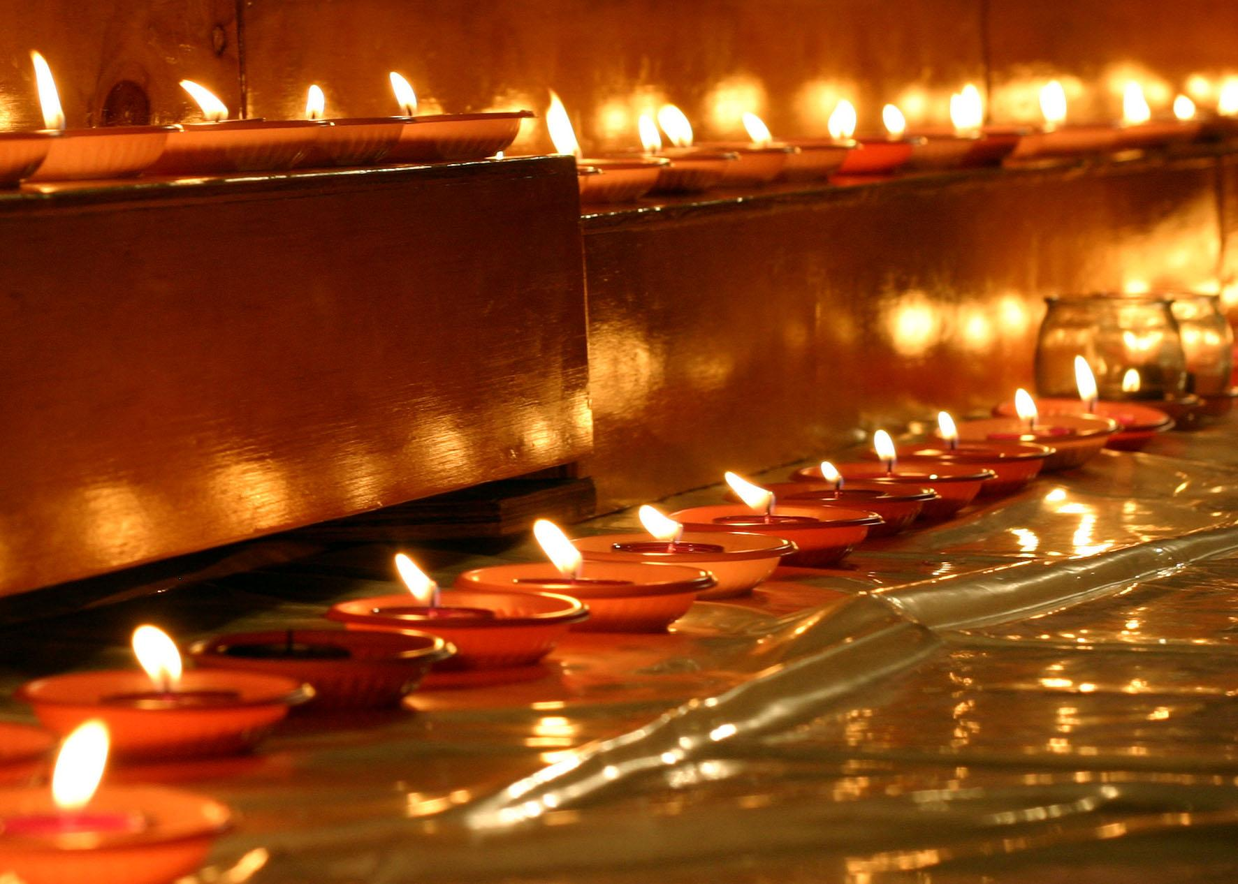 Rows of Candles